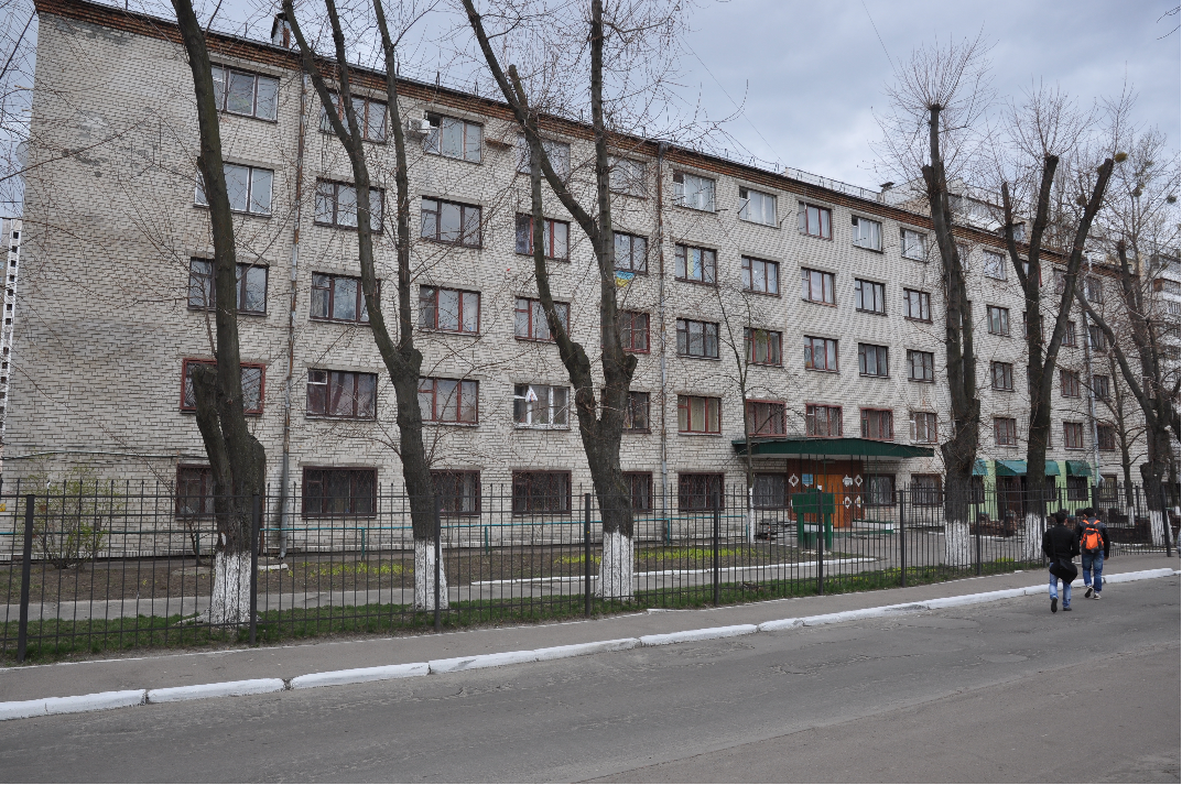 Accommodation KMU of UAFM